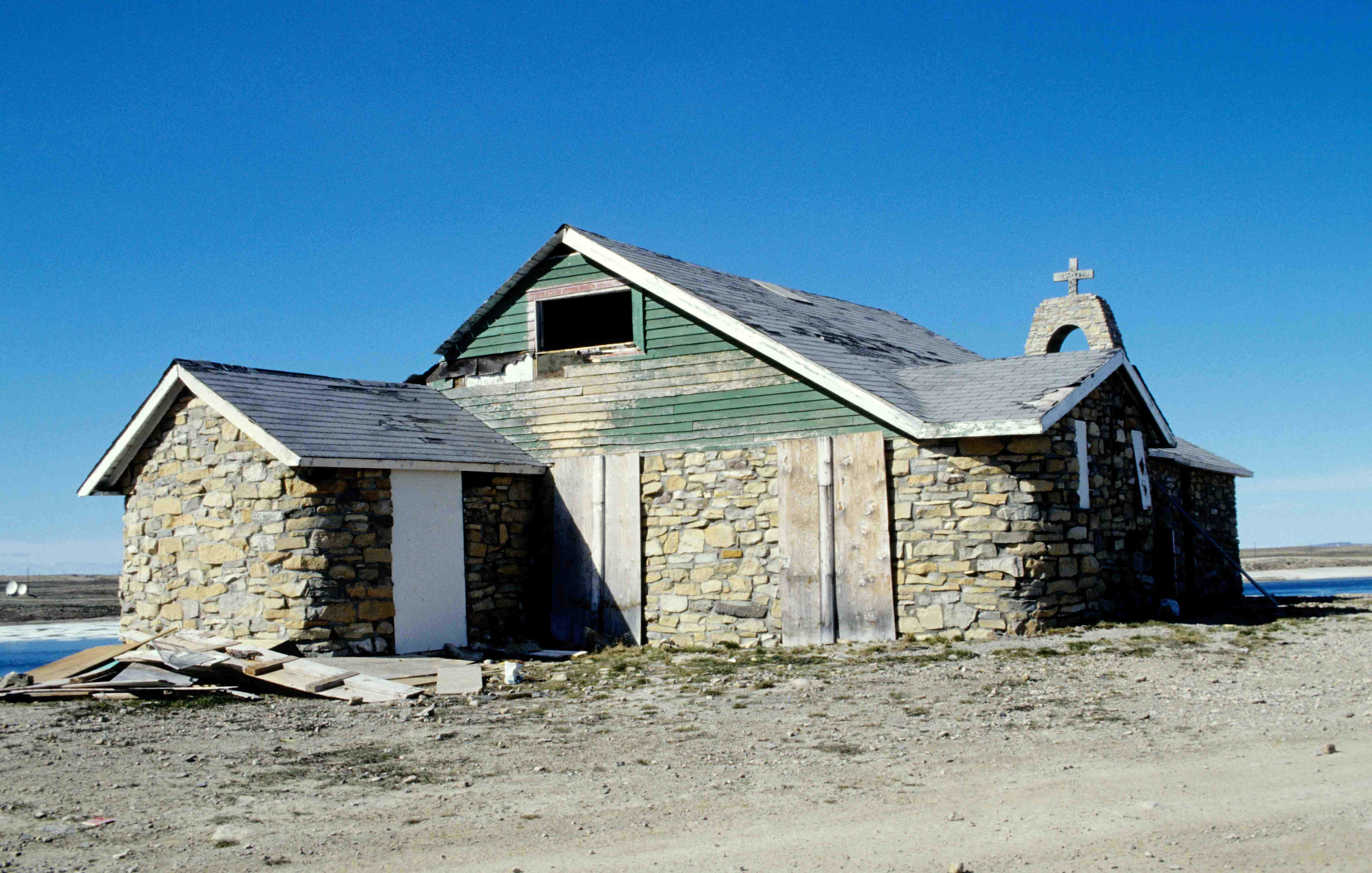 Stone Church of Cambridge Bay (Victoria Island)